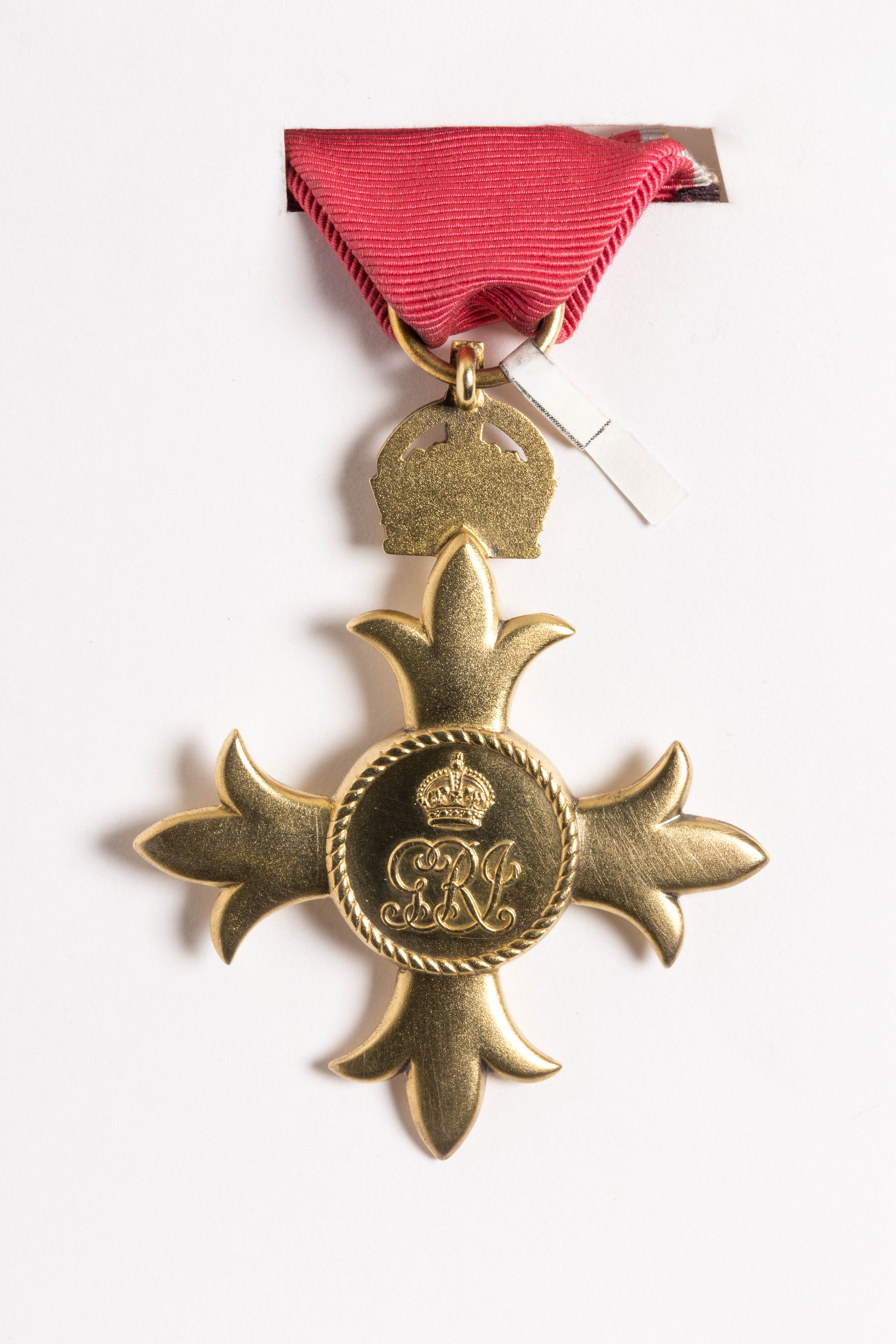 The Most Excellent Order of the British Empire - Officer (Civ) (OBE) GV Awarded to Wing Commander Alfred Hardwick Marsack, OBE (Civ), RAF (1906-1966) gold cross patonce; ring suspension; grosgrain ribbon obverse- conjoined crowned busts of King George V and Queen Mary at centre; surrounded by motto- FOR GOD AND EMPIRE; medal surmounted by crown reverse- royal cypher- GRI; surmounted by crown ribbon- red with grey stripes at edges